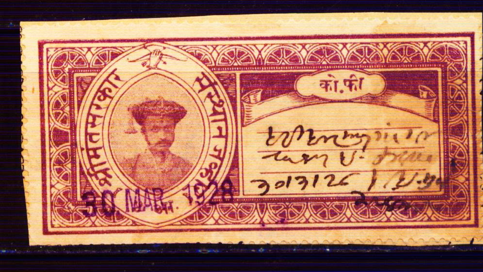 महाराजा यशवंतराव मुकने